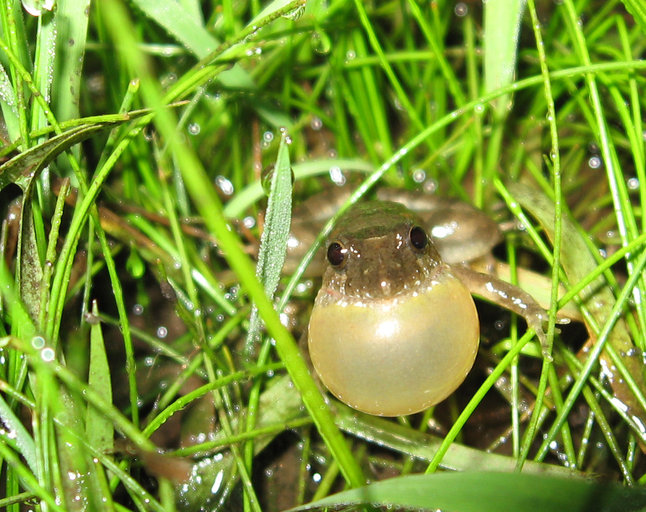 Pseudopaludicola falcipes